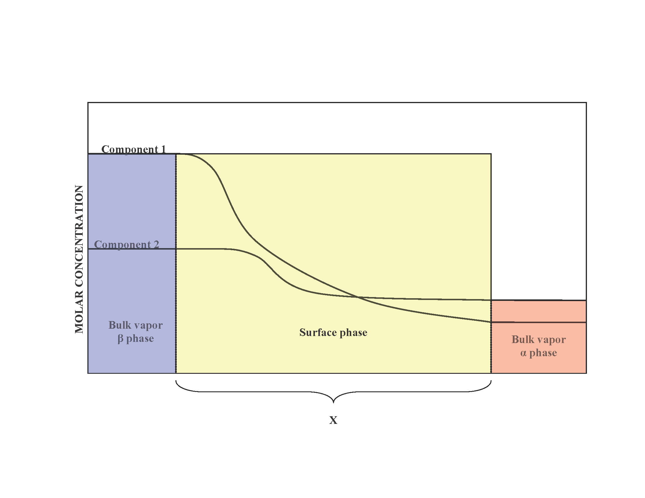 Concentration variation across the surface phase of the Real System model